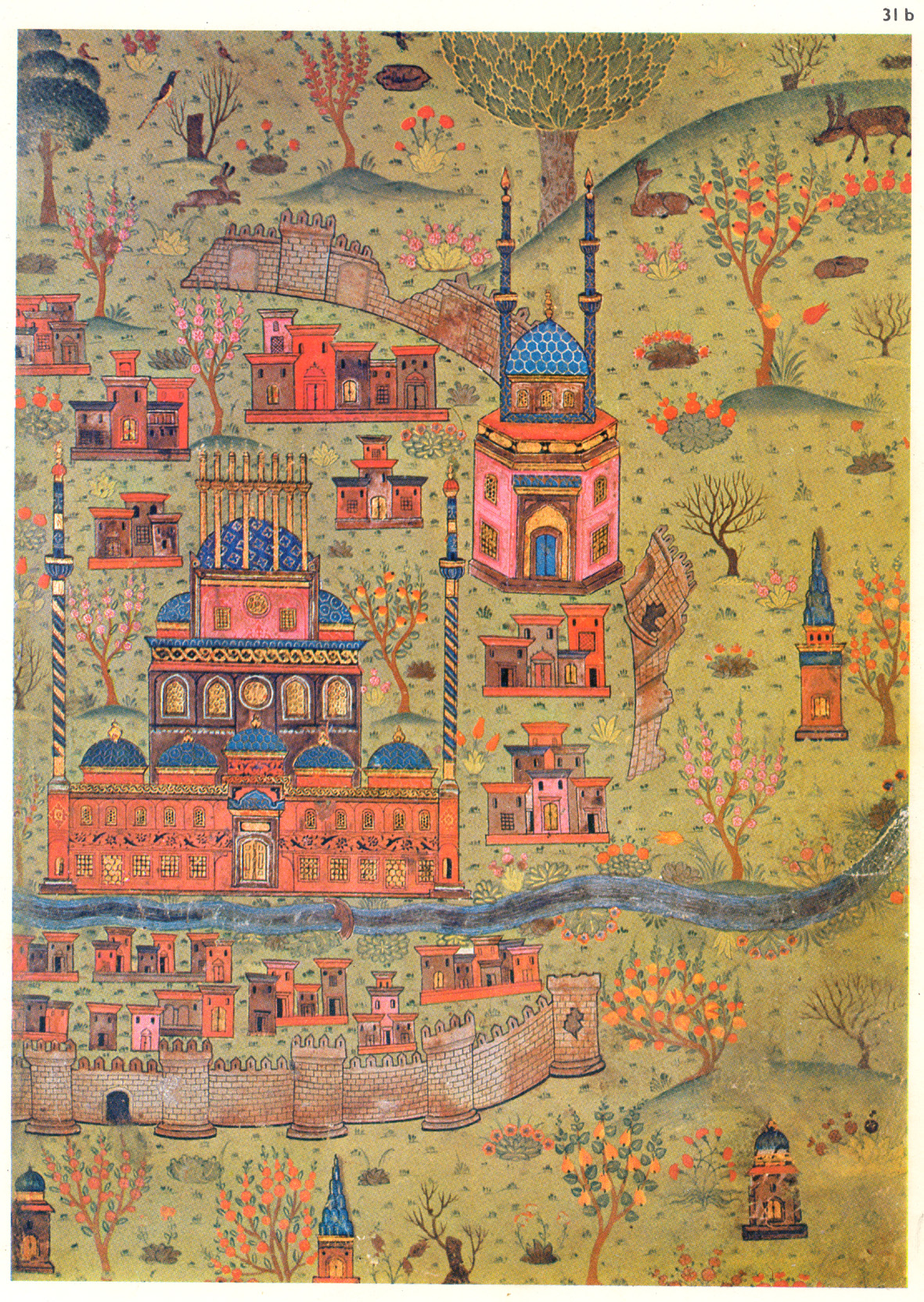 16th century map of Soltaniyeh, Zanjan, Iran